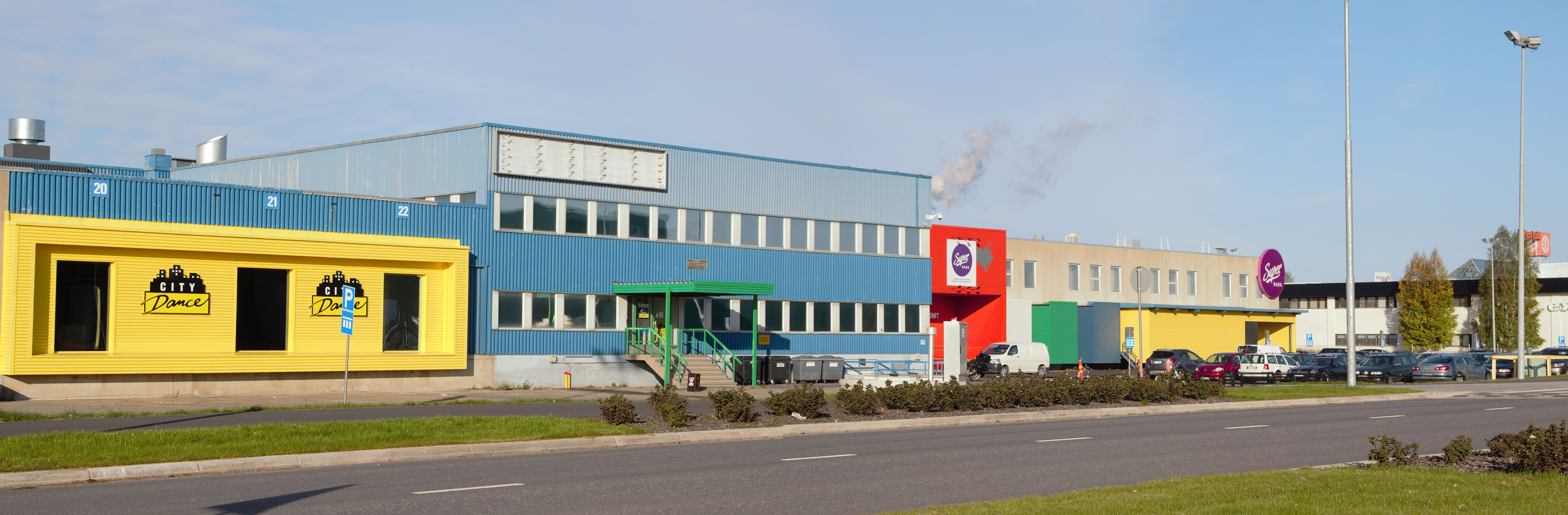 SuperPark indoor activity venue in Limingantulli, Oulu.